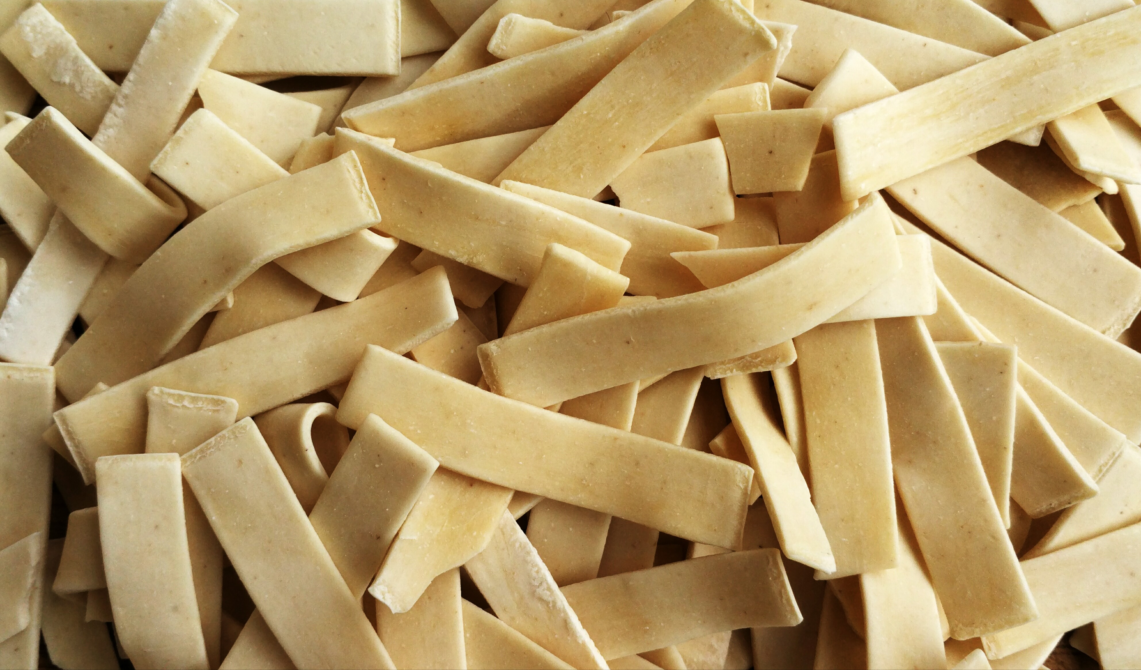 Sagnette are short ribbon pasta from the Abruzzi region